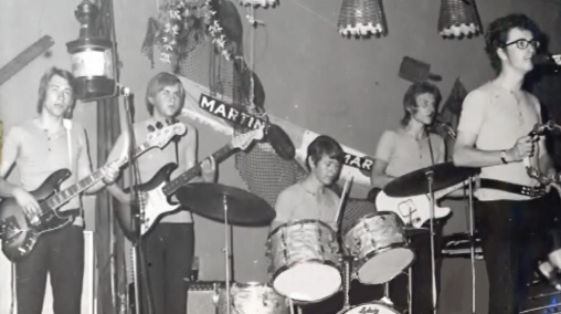 Bugges Firo, a Norwegian dance band from Trondheim, established around 1967